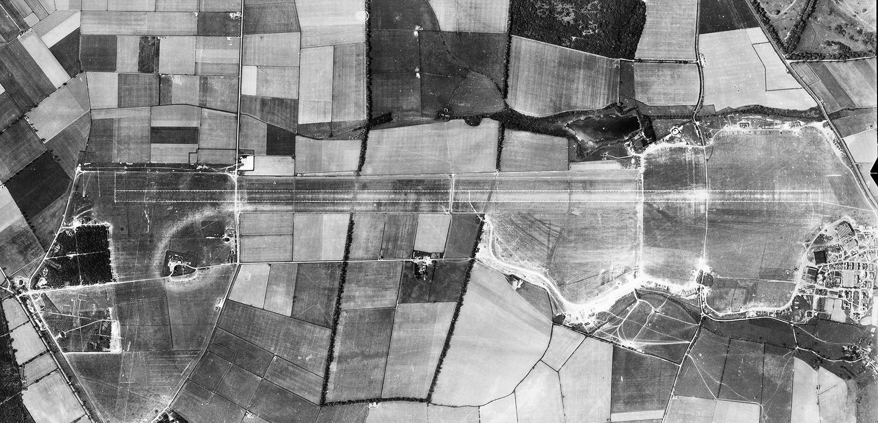 Aerial photograph of Wittering airfield, 9 May 1944. Photograph taken by 7th Photographic Reconnaissance Group, sortie number US/7GR/LOC334. English Heritage (USAAF Photography).